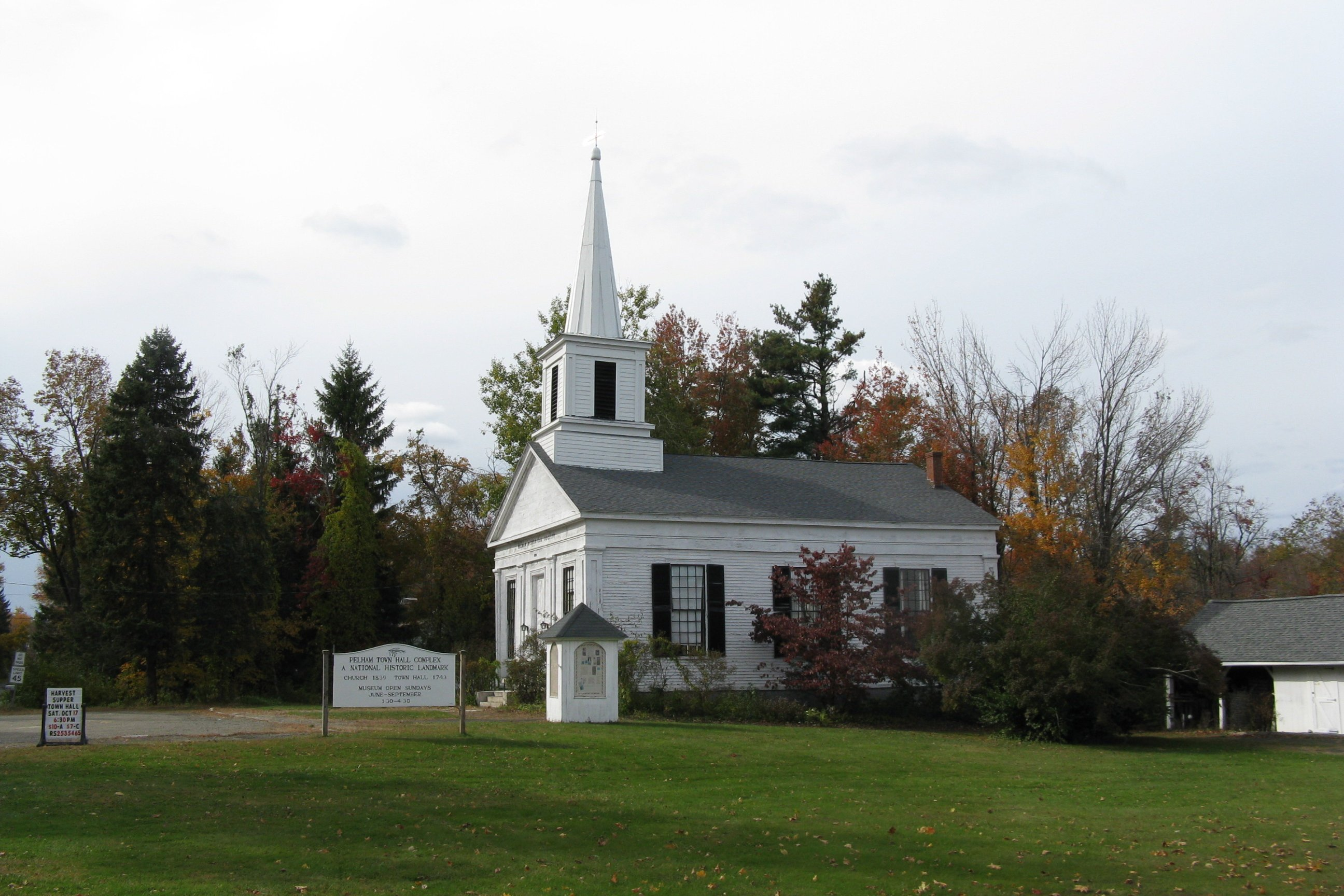 1839 Church, Pelham Massachusetts